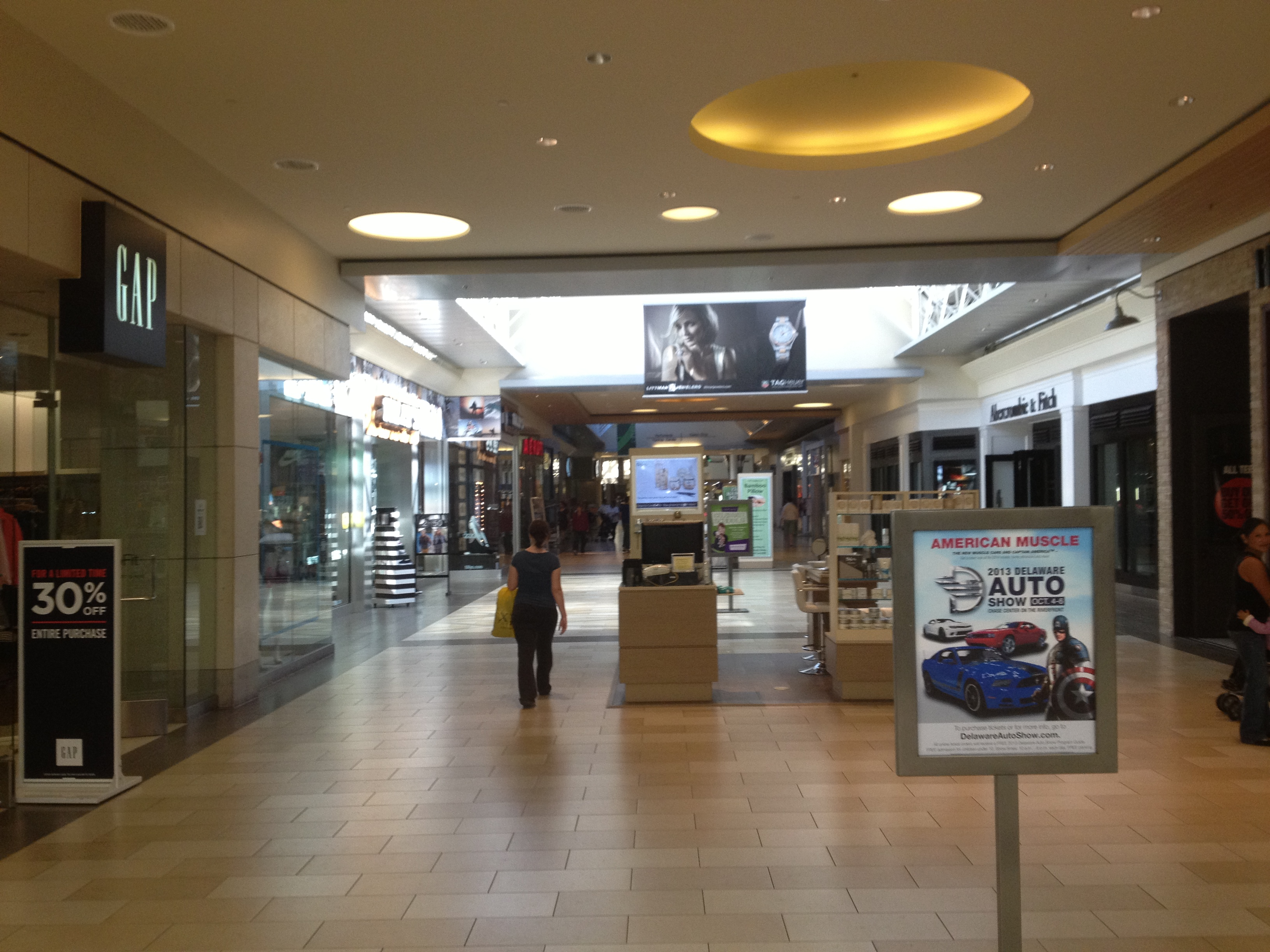 The interior of the Christiana Mall in Christiana, Delaware between Macy's and JCPenney